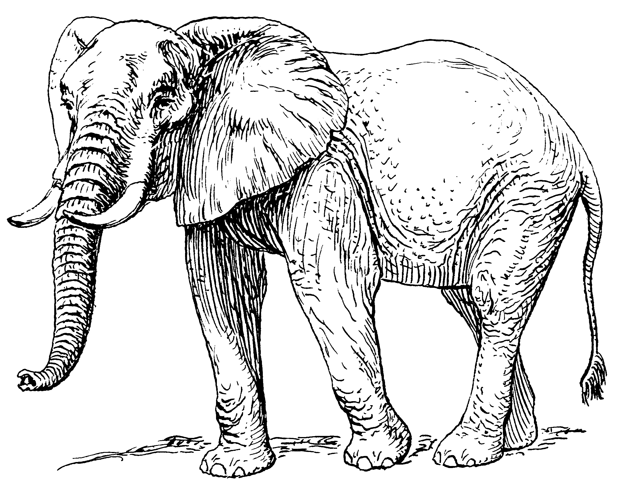 African_elephant